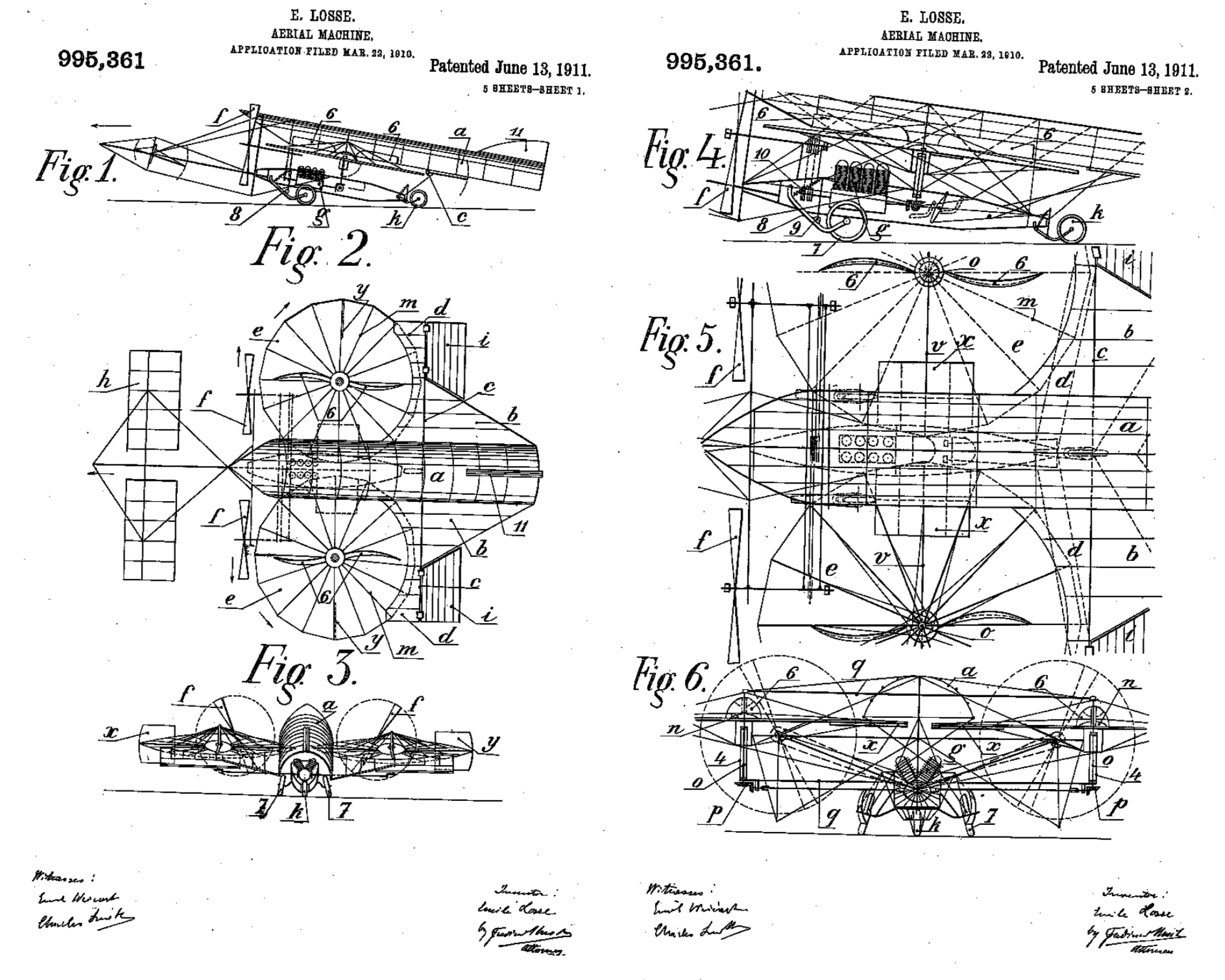 Drawing from the specification of Émile Lossé's U.S. patent for Aerial Machines